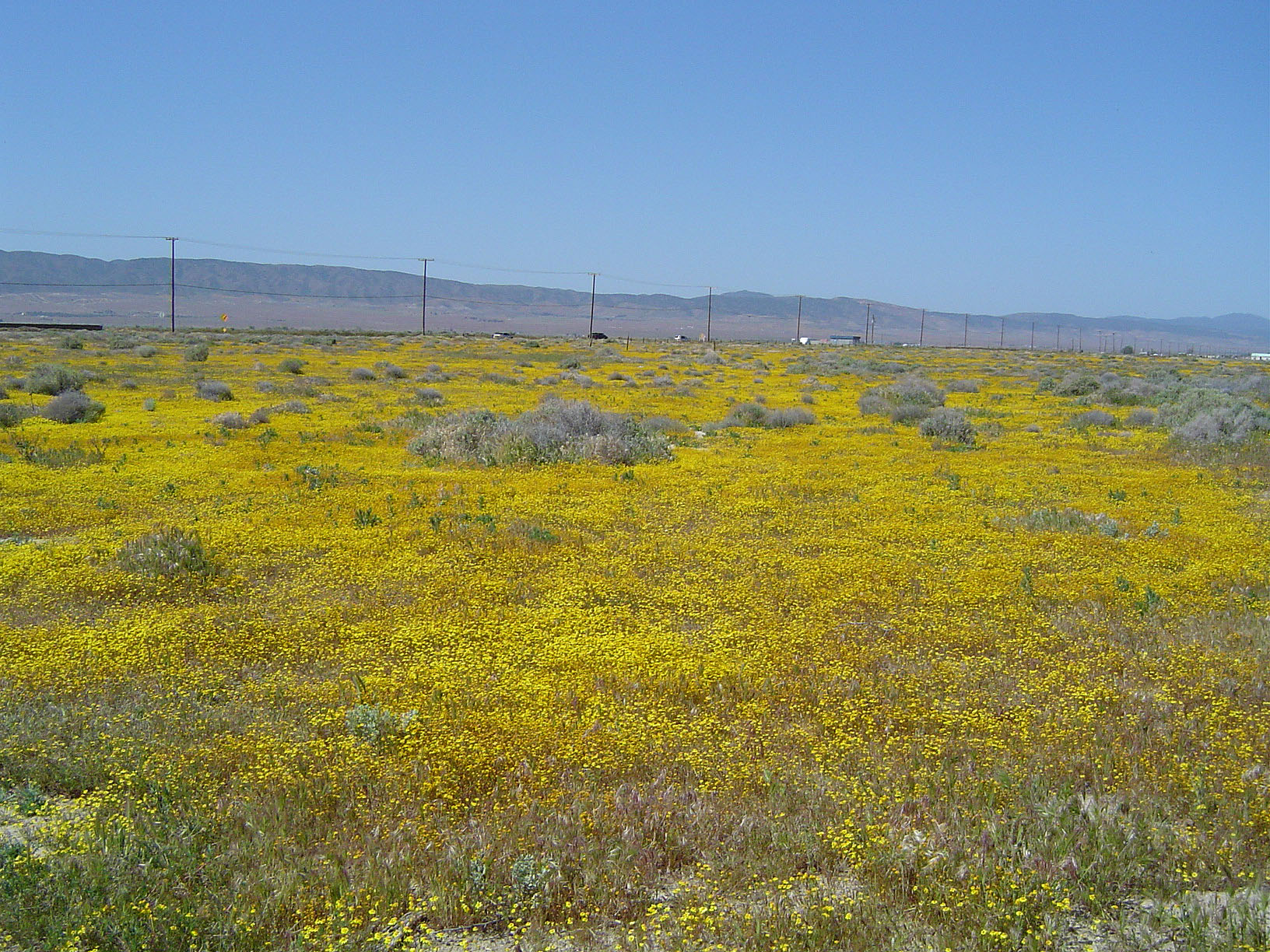 Antelope Valley in spring, covered by a carpet of California Goldfields (Lasthenia californica).